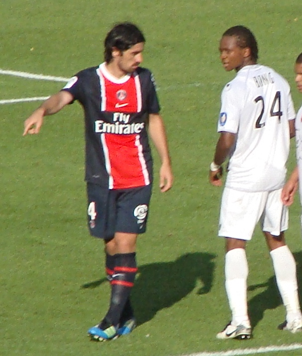 Milan Biševac & Gaëtan Bong